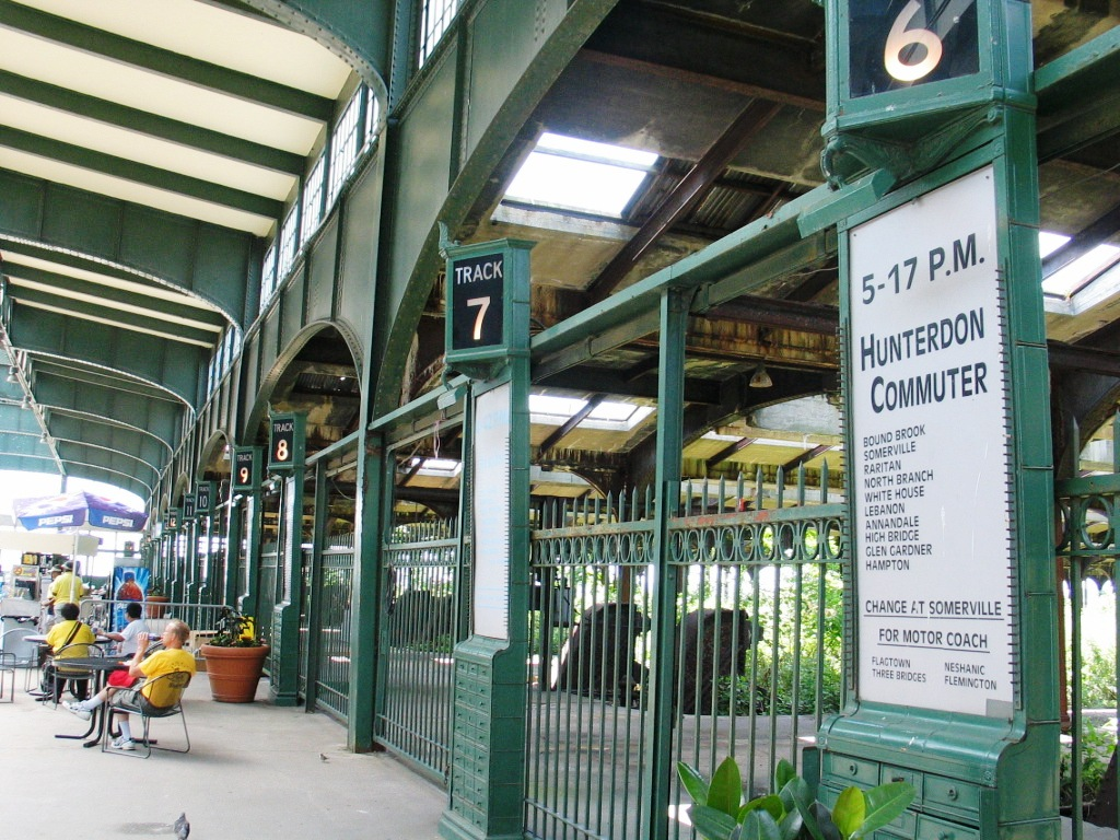 The fence between the unused, abandoned trackage and the concourse of the CRR NJ Terminal. Track signs and tablet replicas remain as reminders of the past.